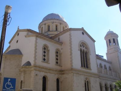 The Orthodox cathedral in Limassol (Lemesos), Cyprus